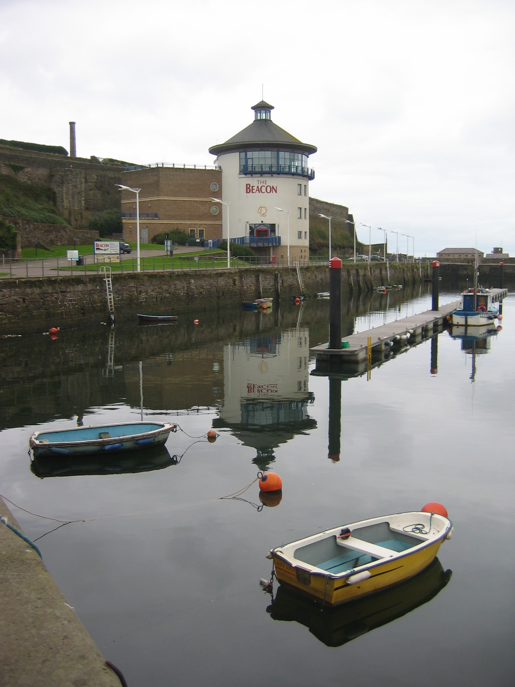 Whitehaven Beacon, Cumbria, England